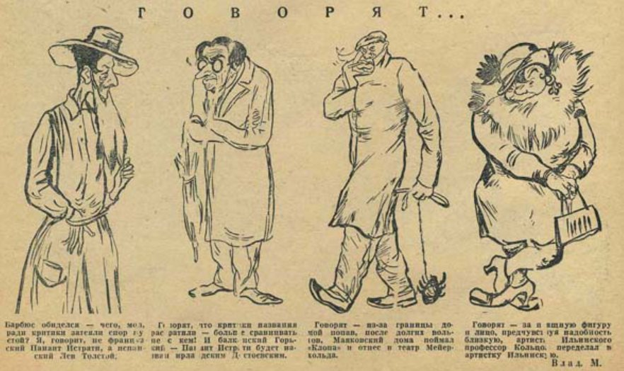 Mayakovsky: Govoryat... A publication of the poem in Magazine Chudak No 3 1929